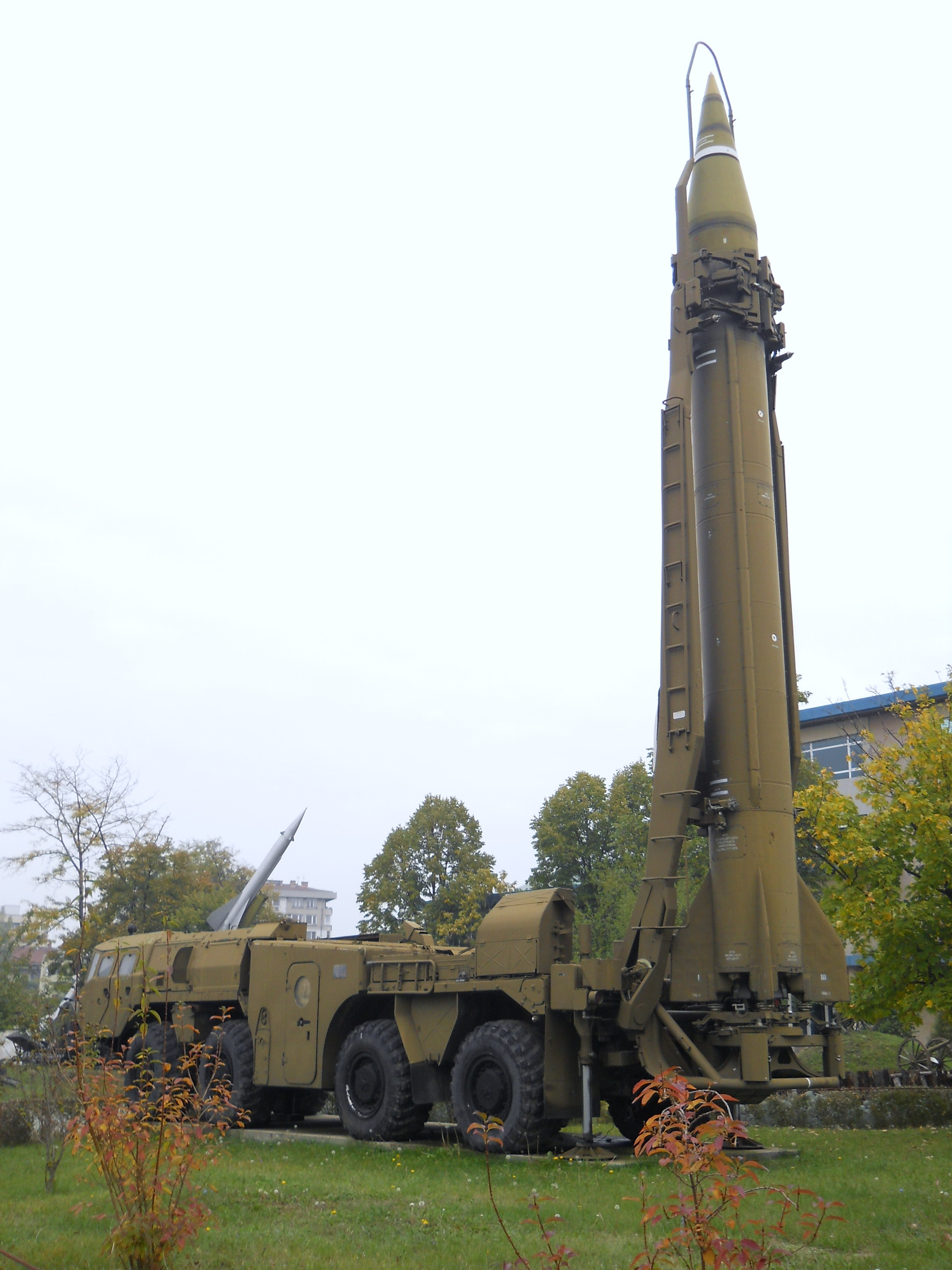 SS-1 Scud missile on its MAZ-543P-TEL at the National Museum of Military History, Bulgaria.